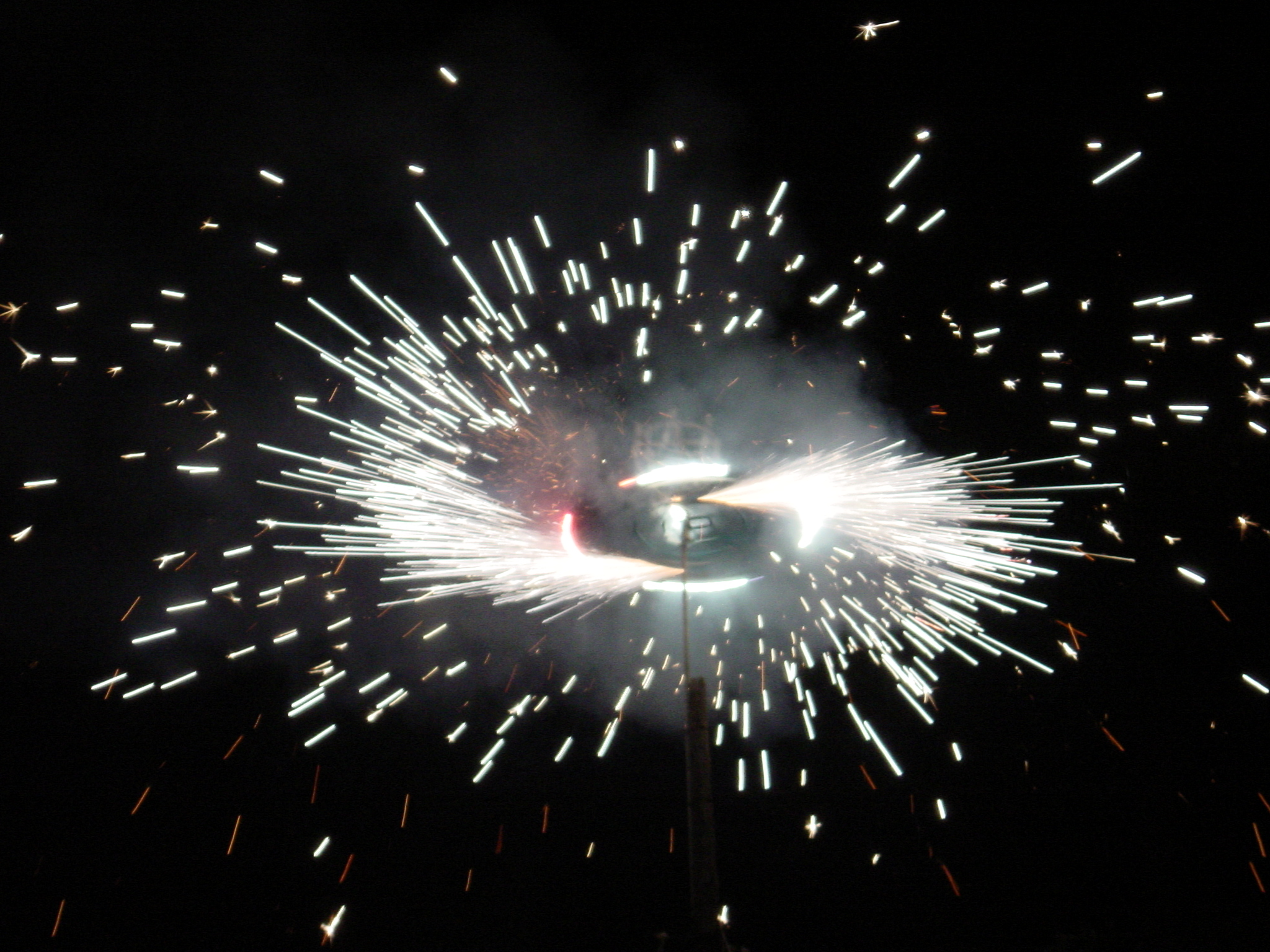 The top of a castillo (big tower of fireworks) in the village of Banda, not far from San Miguel de Allende, Mexico on Christmas day.san_miguel3 036